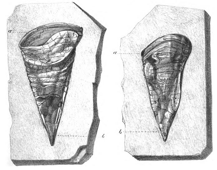 Left:Perfect form of peristome, a; though much compressed, the cavity of the chamber, partially filled with clay, is well-defined Right:This specimen is also perfect, but in consequence of its position in the clay, only one-half of the basal or upper part of the margin of the peristome (a) is visible